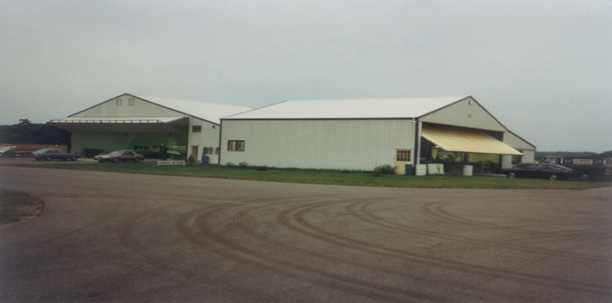 The old Cirrus Design Hangers on the Baraboo-Dells airport in Baraboo, Wisconsin.